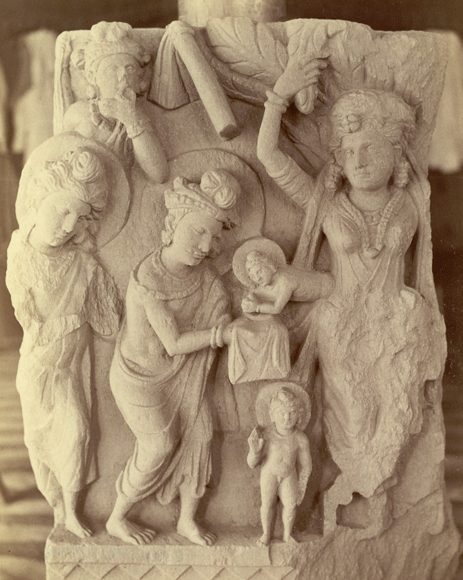 Photograph of a Buddhist sculpture showing the birth of Buddha, from Lorian Tangai, taken by Alexander Caddy in 1896. Here the Buddha is depicted being born from Queen Maya's side, and also standing upright with his hand raised in the gesture of protection (abhaya).This style of sculpture, influenced by Graeco-Roman elements, is known as Gandharan and takes its name from the ancient kingdom of Gandhara (Peshawar) which, together with Udyana (Swat), corresponded fairly closely to the northern part of the North West Frontier Province. Downloaded from the British Library] web site by Fowler&fowler«Talk» 04:32, 16 March 2007 (UTC)